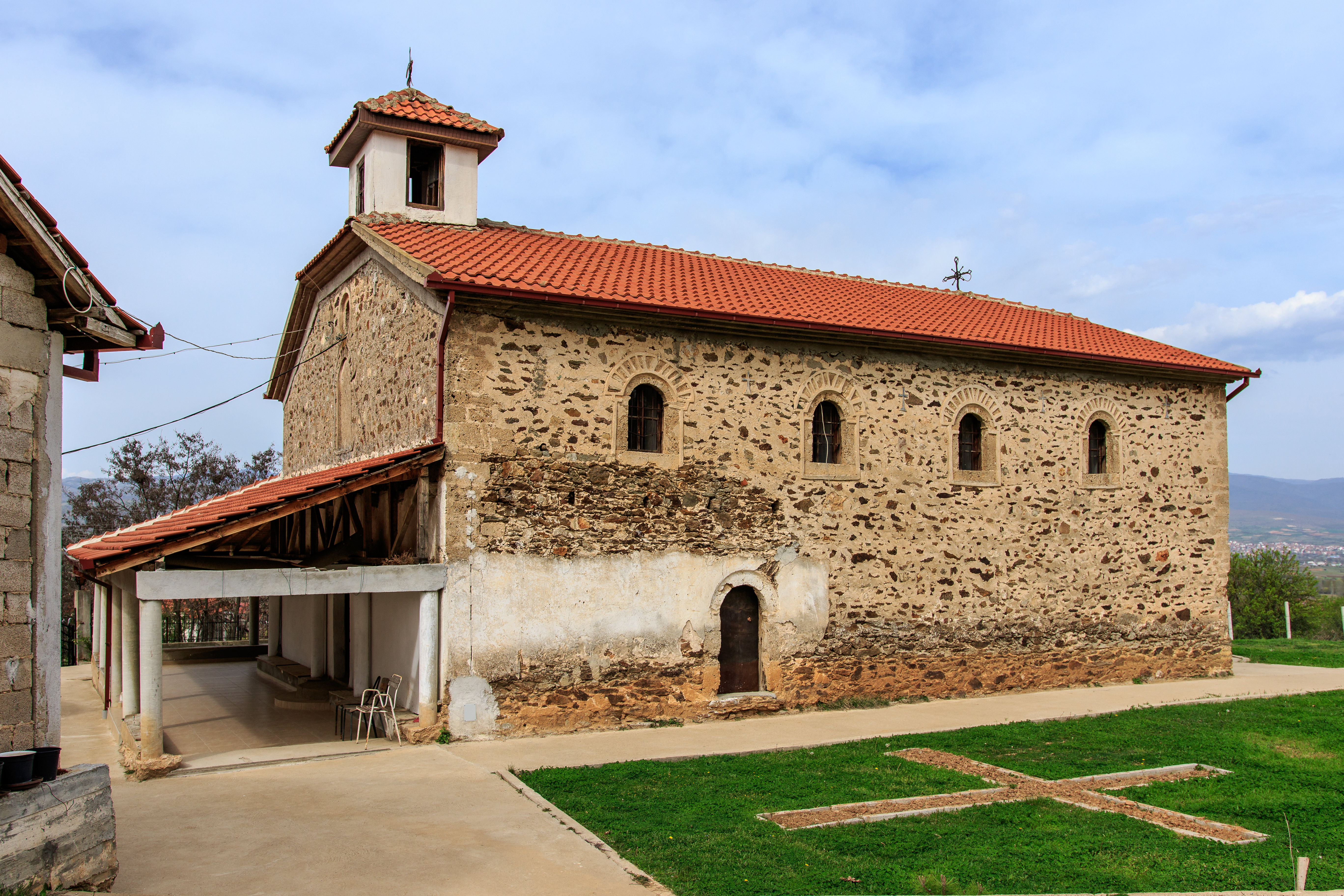 View of Church of the Ascension of Christ in the village Injevo